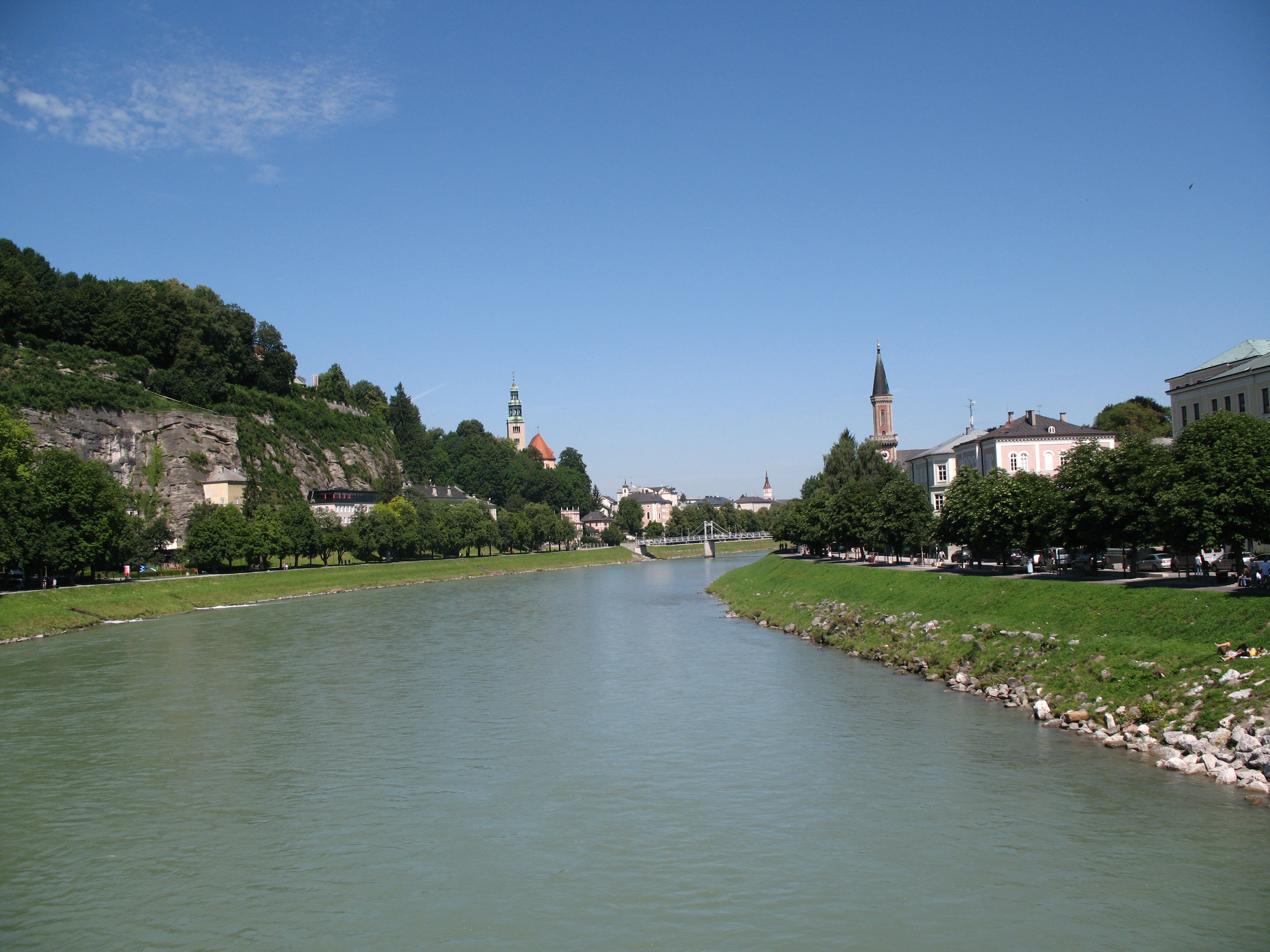 Salzach River, Salzburg, Austria